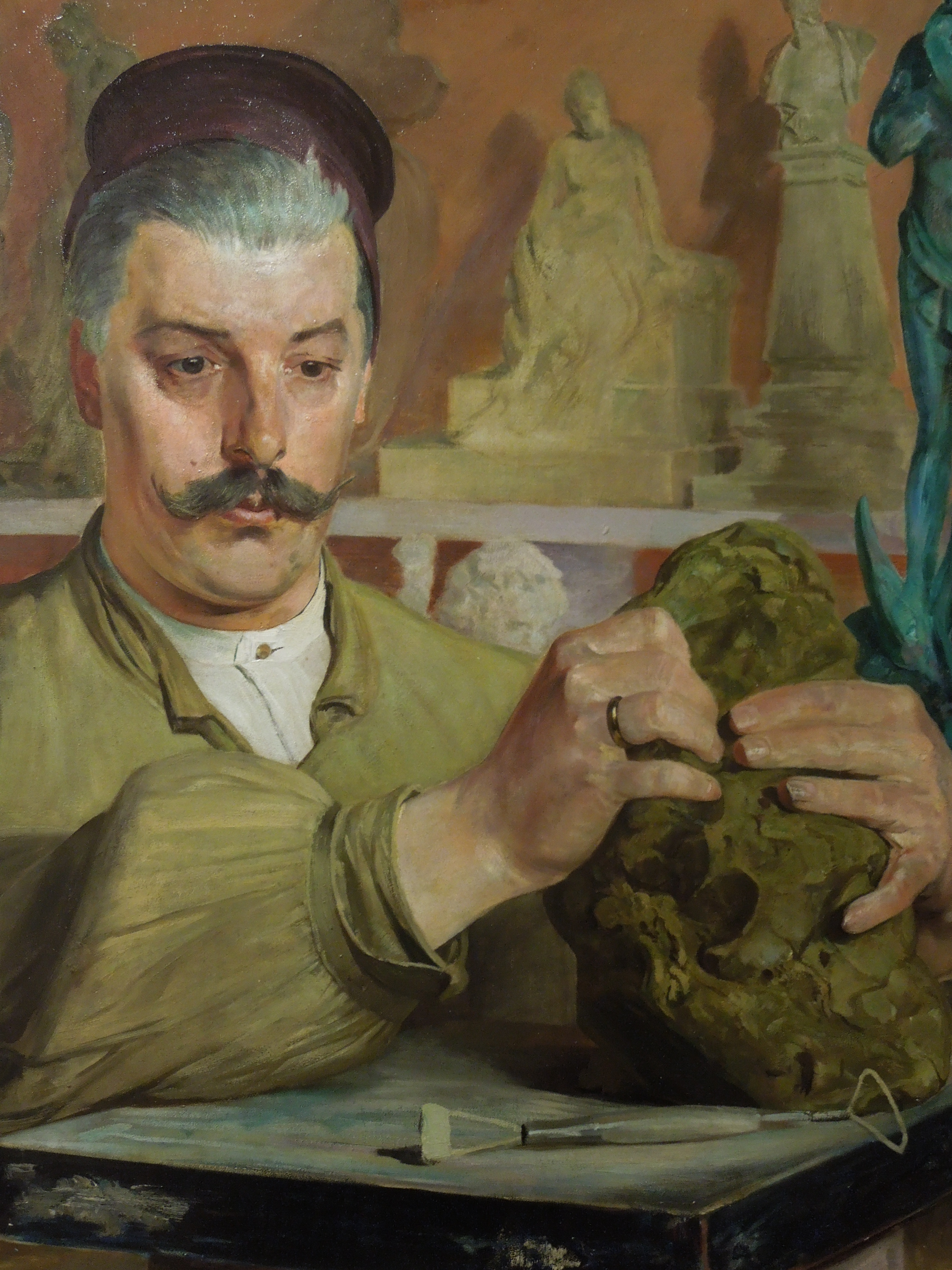 Jacek Malczewski - Portrait of Tadeusz Błotnicki (1901-1902)